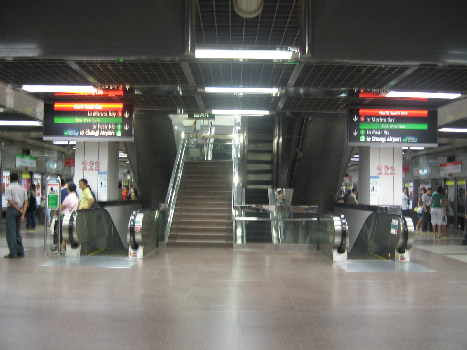 City Hall MRT Station. Taken by Terence Ong (own) in April 2006.